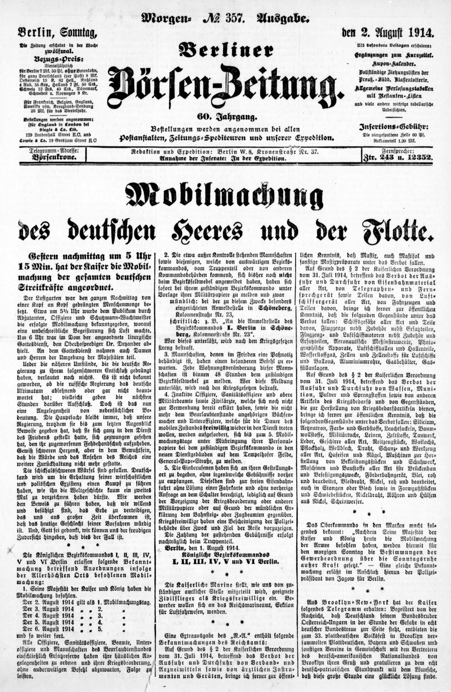 Newspaper front page of Berliner Börsen-Zeitung (1855–1944) no. 357 as of 2 August 1914 – Military Mobilization, World War I starts